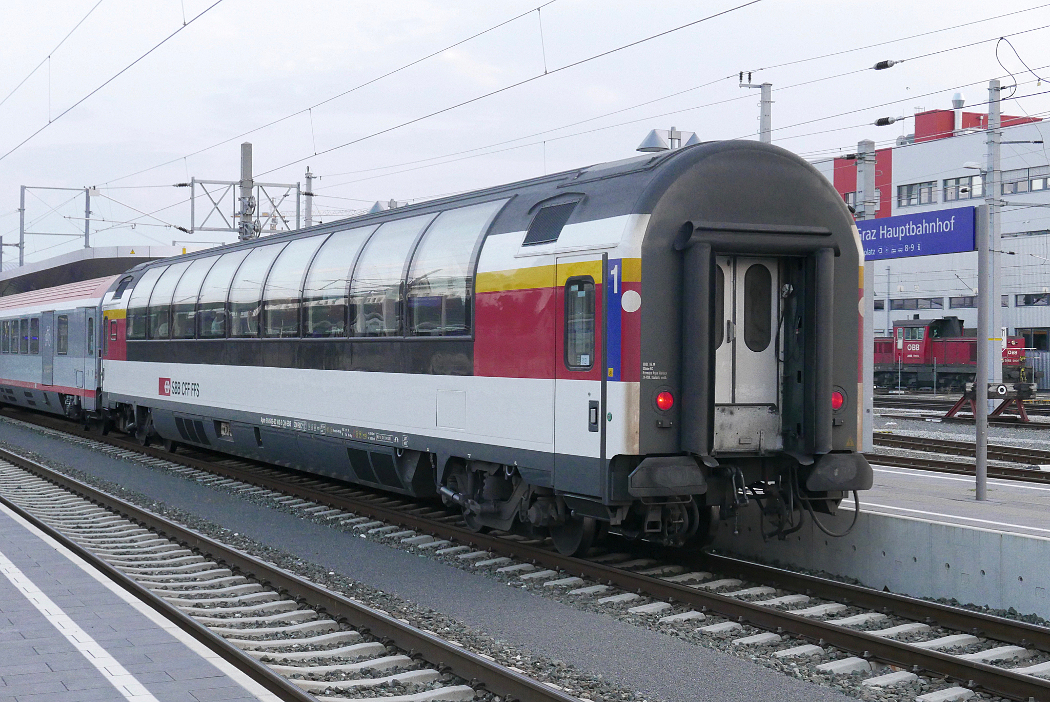 SBB CFF FFS Apm 61 85 19-90 100-2 at Graz Hbf in the consist of EuroCity 163 "Transalpin" from Zürich HB.